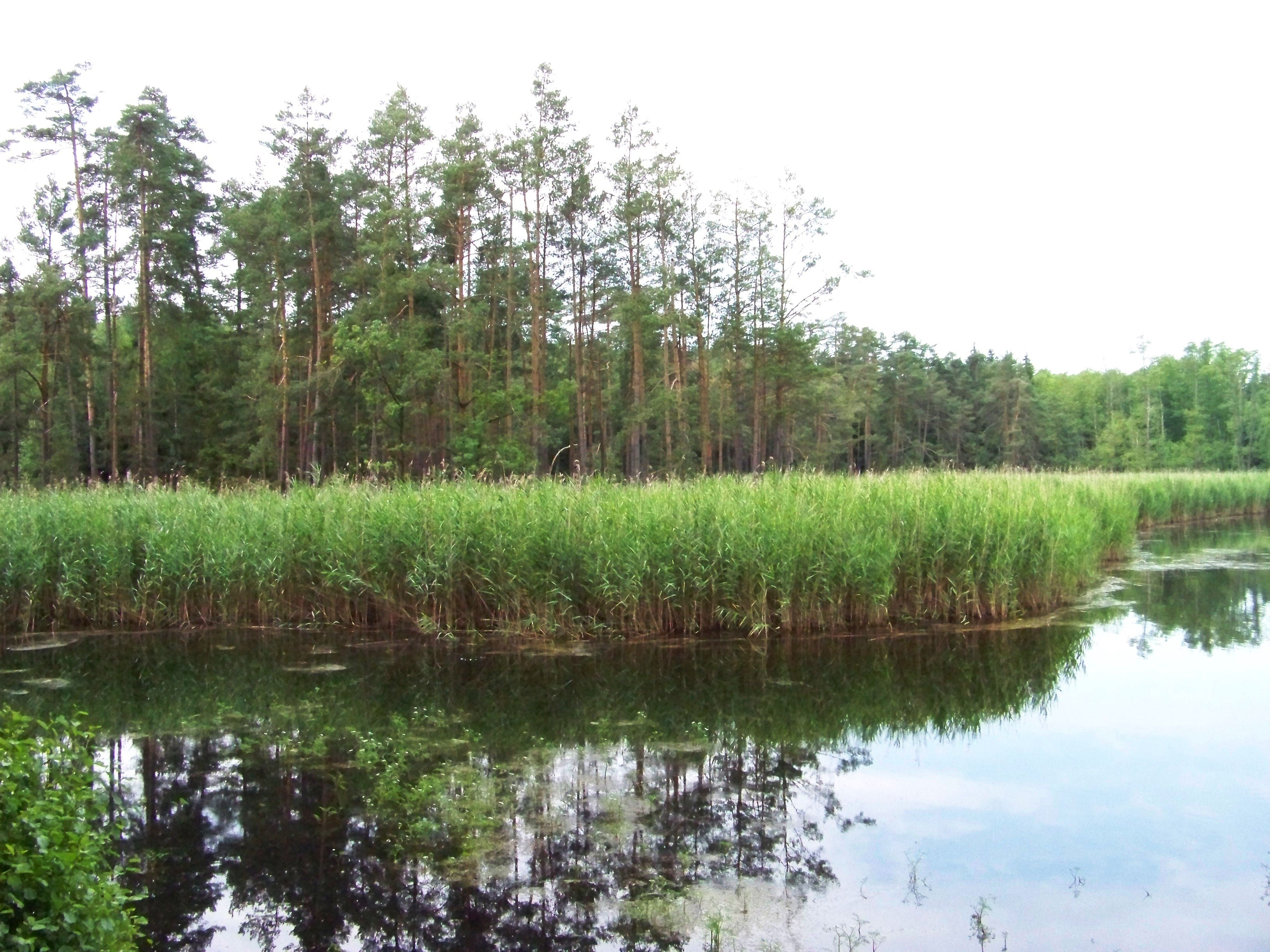 Horní Jelení, Pardubice District, Pardubice Region, the Czech Republic. Pětinoha pond. - OpenStreetMap(Info)